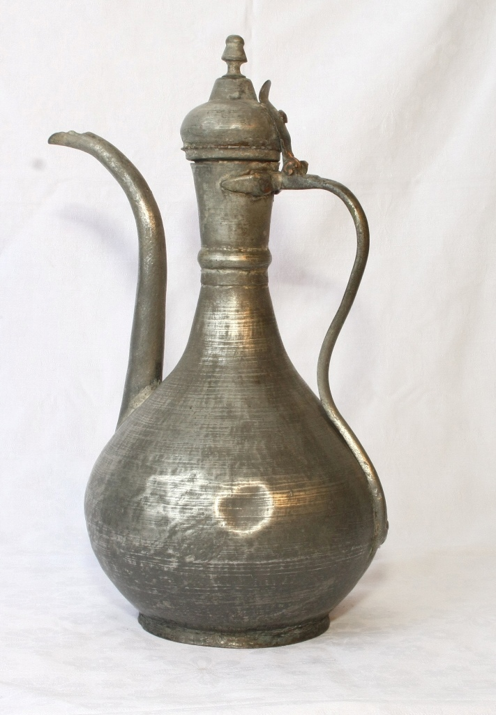 Ilbrik from the Museum in Smederevo